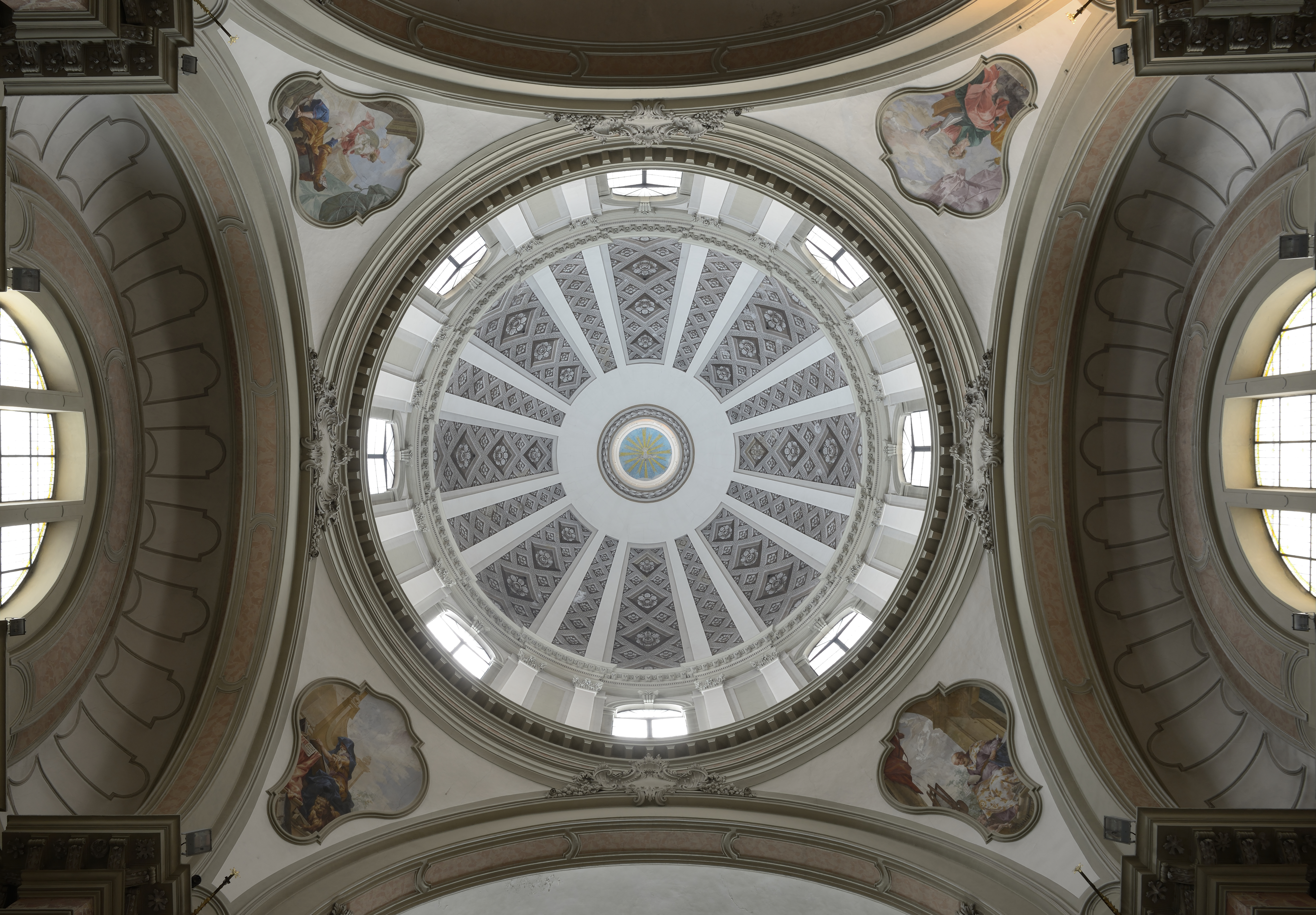 Dome of the duomo in Montichiari.